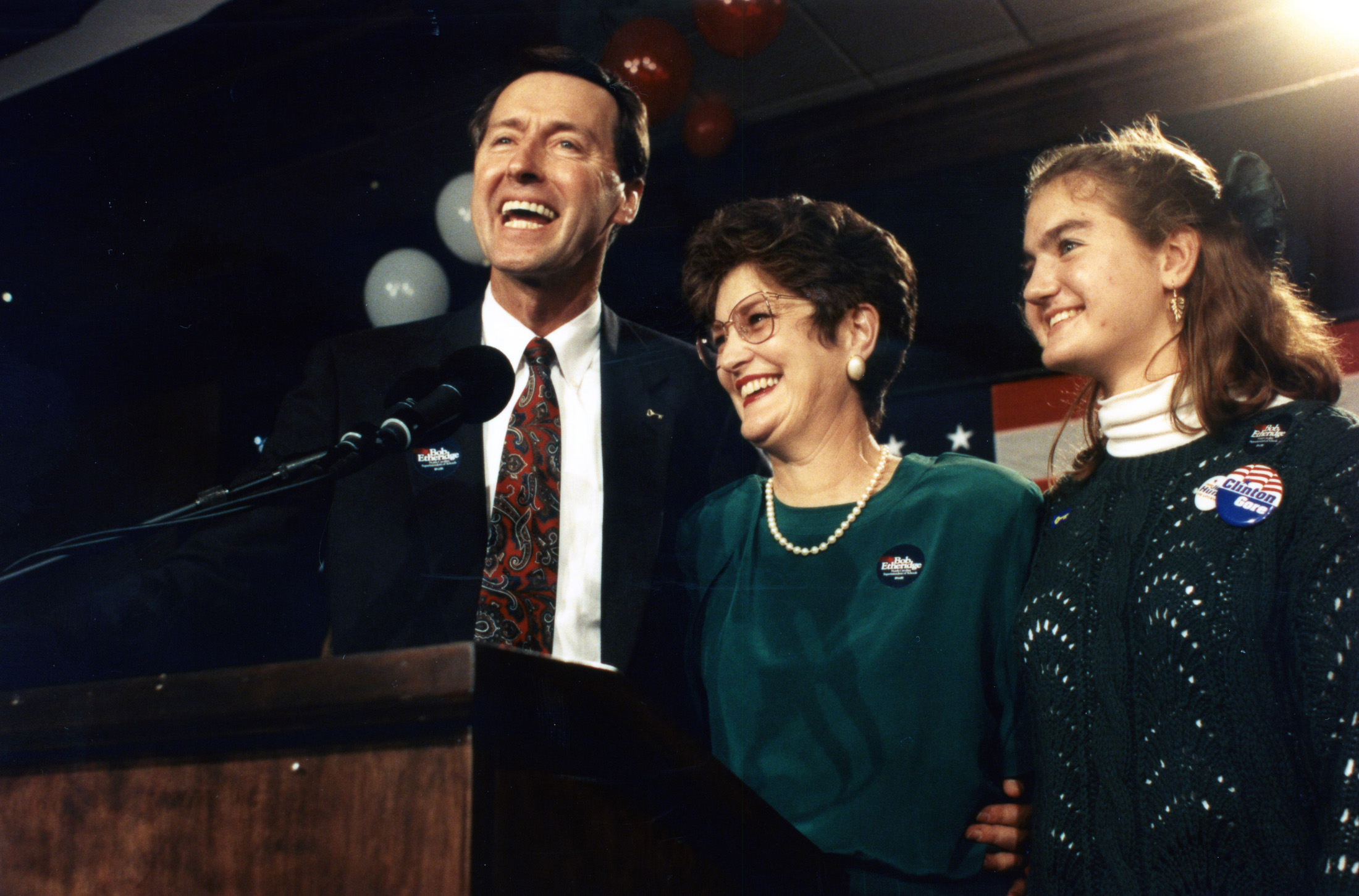 North Carolina superintendent of public schools Bob Etheridge celebrates victory with his family on election night, 1992.